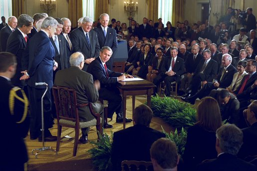 President George W. Bush looks toward Senator Jesse Helms after signing the H.J. Resolution 114 authorizing the use of force against Iraq in the East Room Wednesday, Oct. 16. "I thank the Congress for a thorough debate and an overwhelming statement of support. The broad resolve of our government is now clear to all, clear to everyone to see: We will defend our nation, and lead others in defending the peace," said President Bush. White House photo by Paul Morse